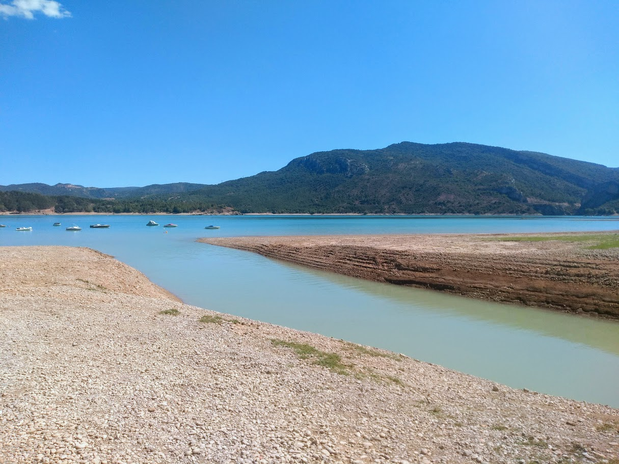 Barasona Reservoir, Huesca, Aragon, Spain